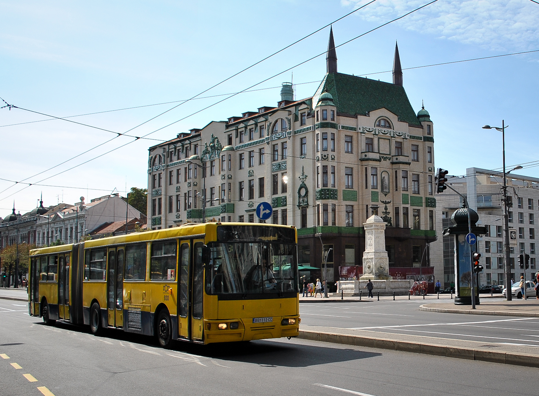 Bus on Terazije Square